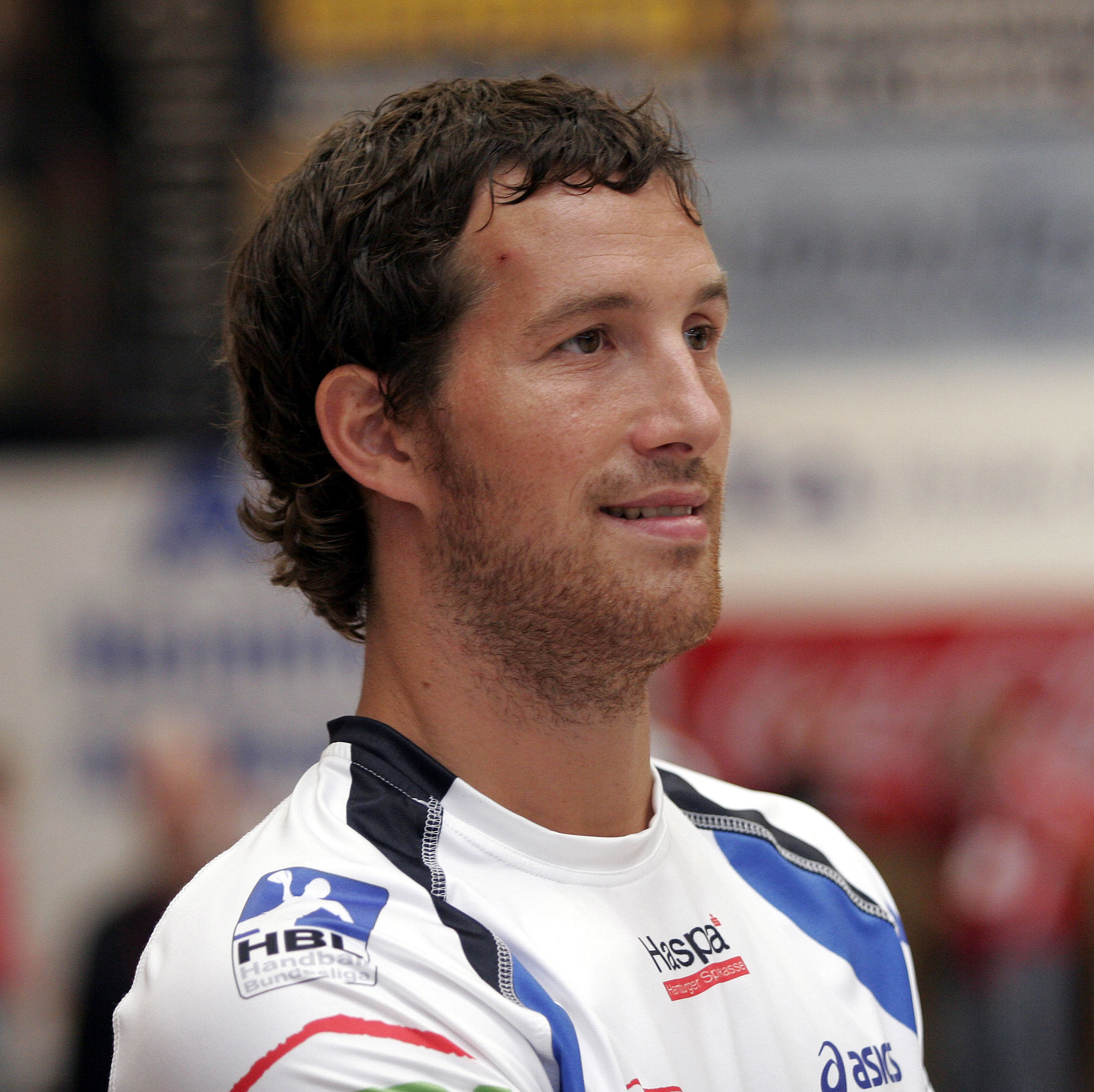 Torsten Jansen, German Handball player from HSV Hamburg, during the Schlecker Cup 2007 in Ehingen (Germany)